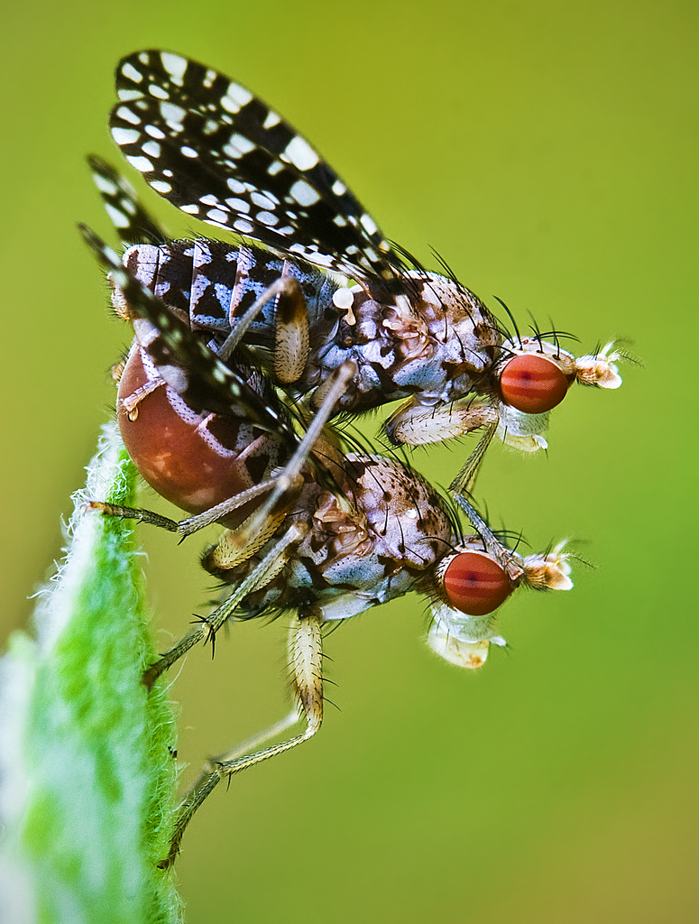 I found these flies in the grass-plot at last summer, the flies were not so versatile. I took this photo with CanonEOS40D photocamera + CanonEF100mmMacroUSM lens. Please have a view of full size... Thanks :)